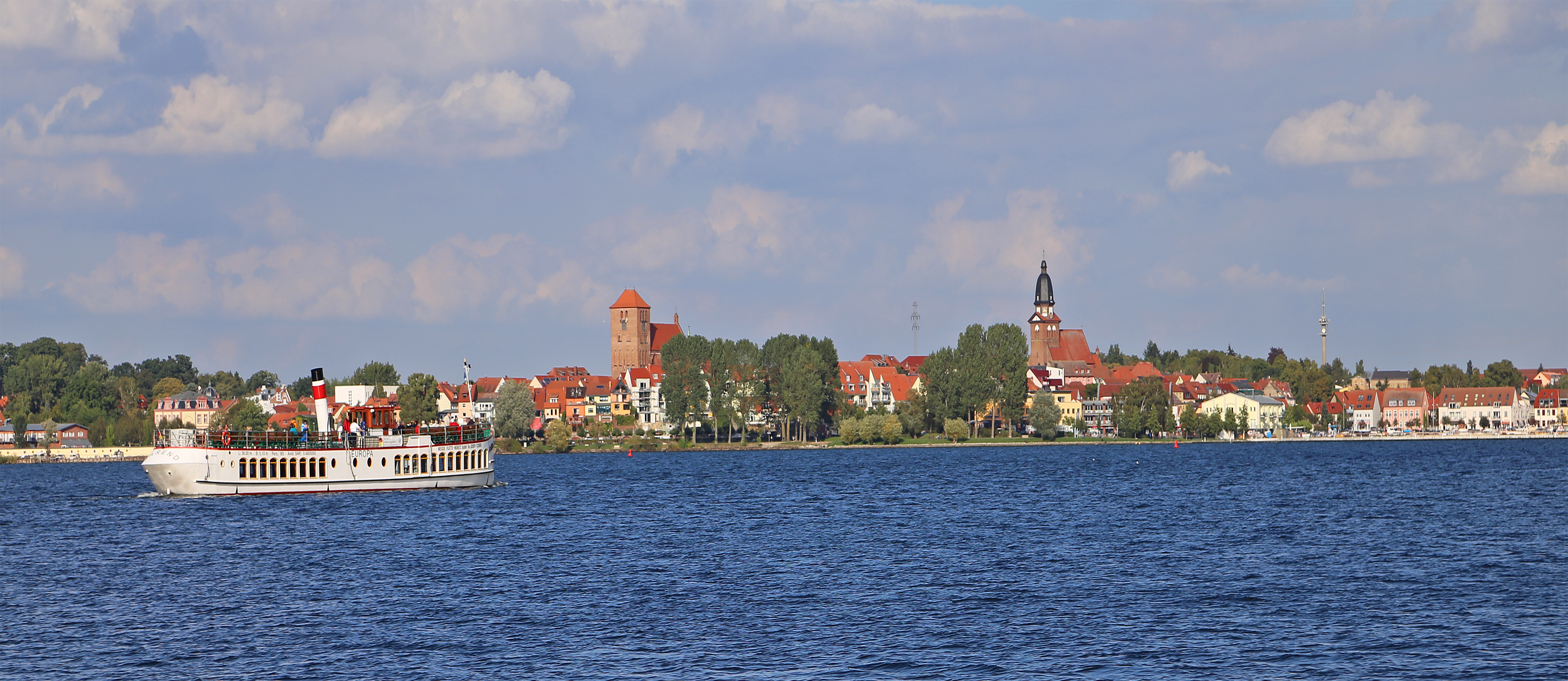 Waren (Müritz): The health and air spa in the district of Mecklenburg Lake District is with about 20000 inhabitants the main town on the Müritzer lake.